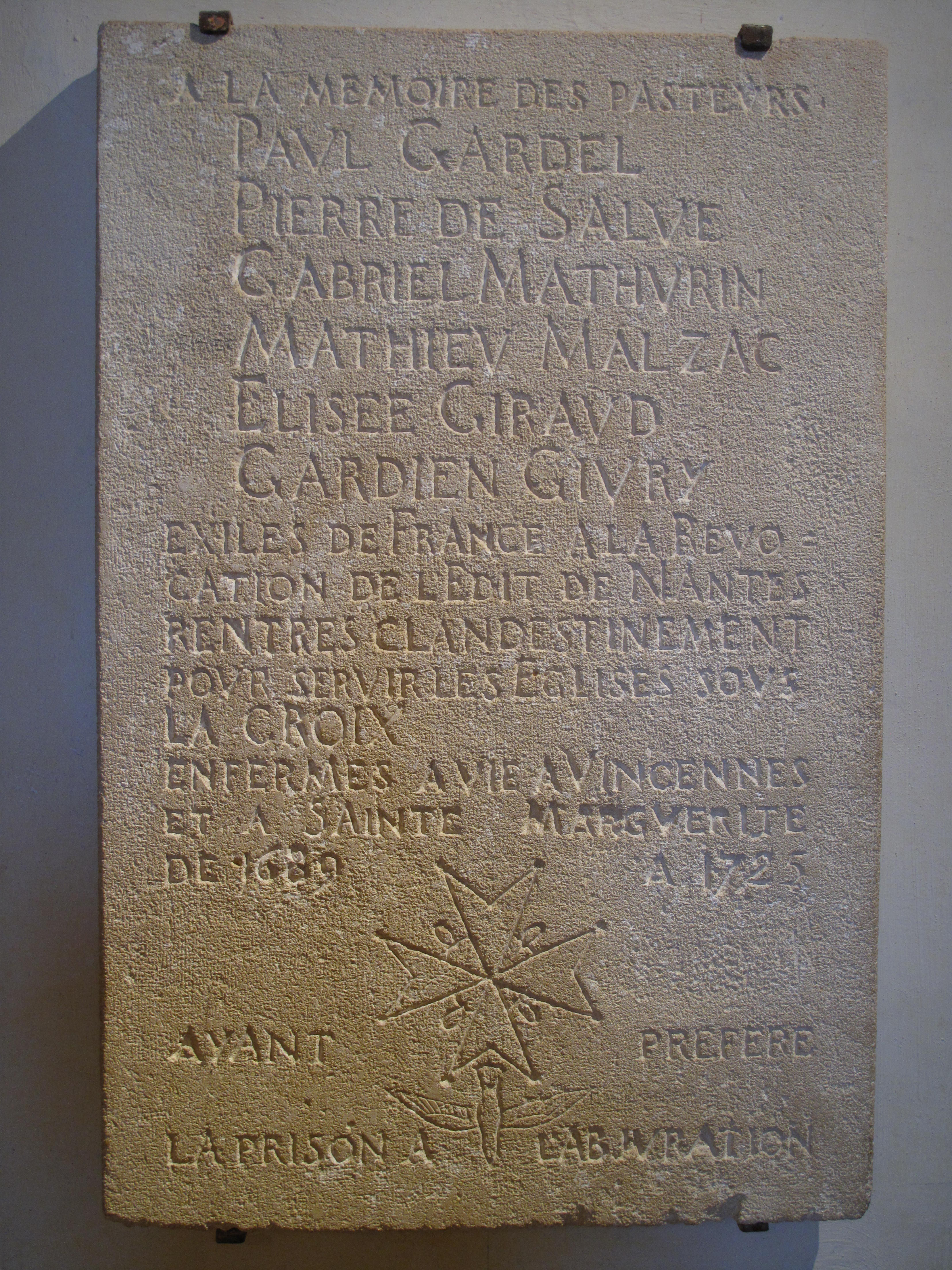 Plaque in memory of the huguenot pastors arbitrarily kept in the prison of the fort-Royal of the Sainte-Marguerite island (Alpes-Maritimes, France).